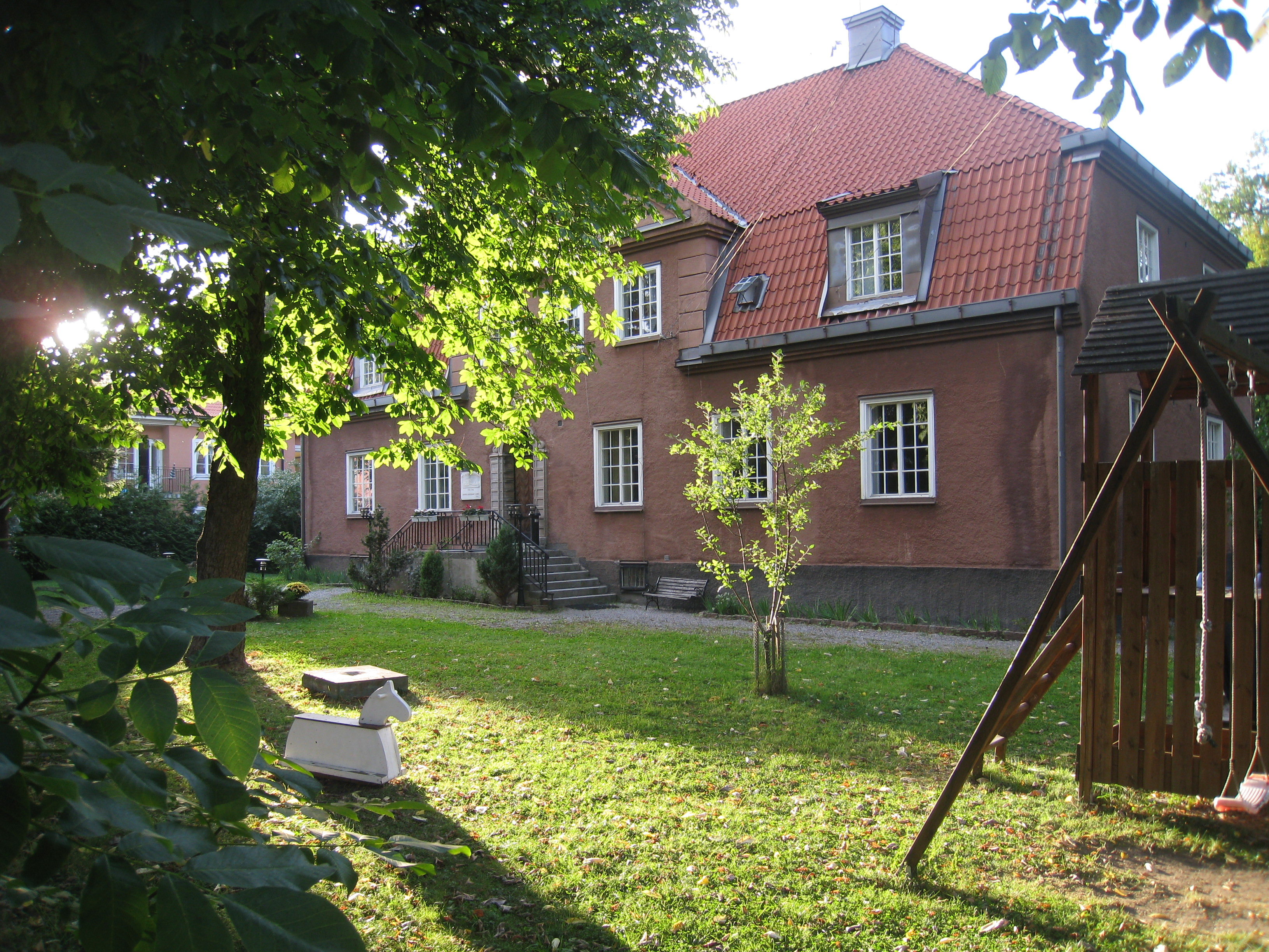 Ulvsunda rectory in Ulvsunda, Bromma, western Stockholm, was built in 1914 and used as a recidence for Bromma's priests during 1914-1971.